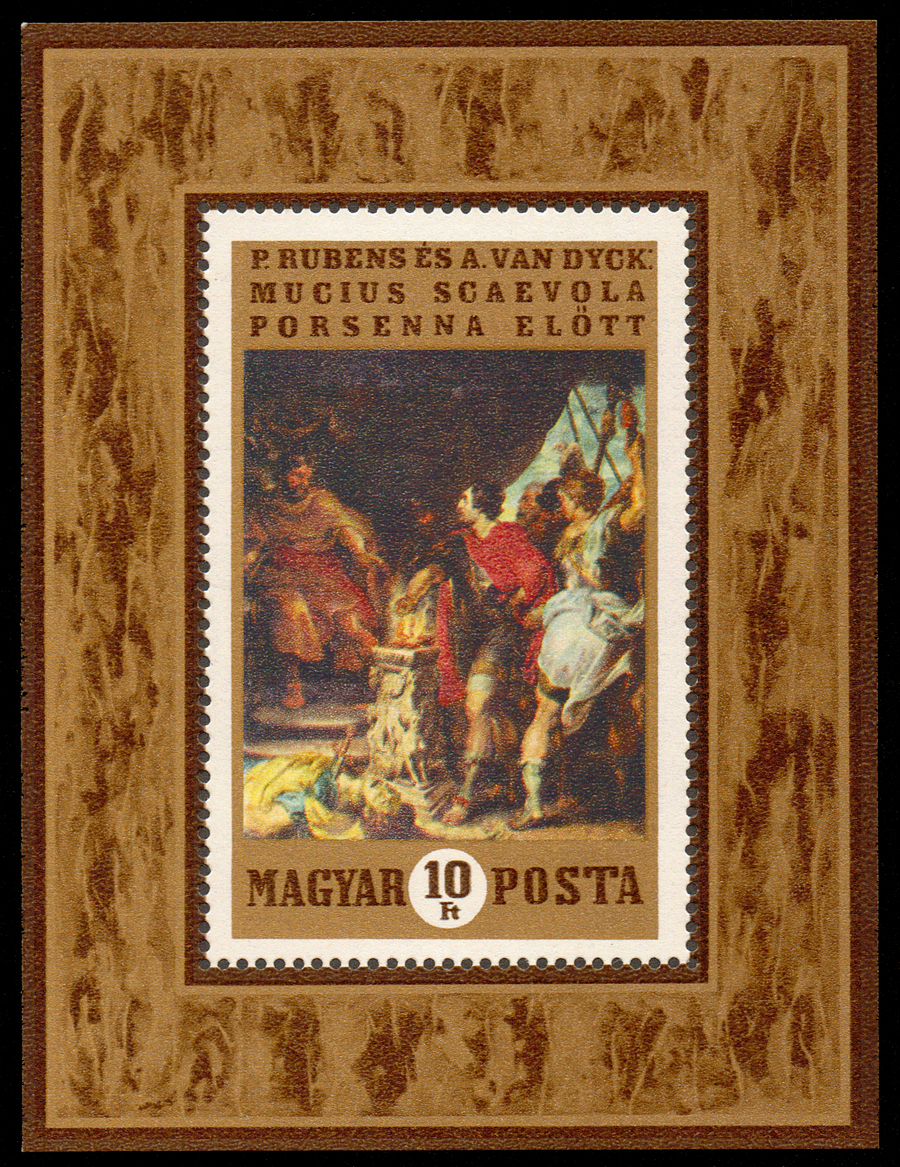 Dutch Paintings - Mucius Scaevola before Porsena Denomination: 10 Forint